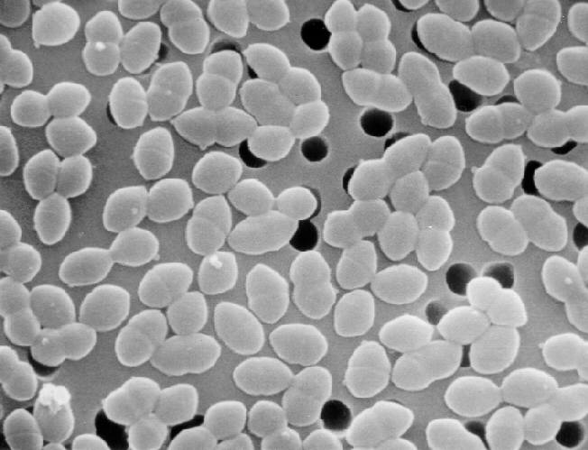 This scanning electron micrograph (SEM) depicted numbers of bacteria, which were identified as being Gram-positive Enterococcus sp. bacteria. Previously identified as "Group D" Streptococcus organisms, the most clinically relevant of these bacteria are, E. faecalis, and E. faecium.Enterococcus spp. bacteria are notoriously linked as etiologic agents responsible for nosocomial, or "hospital-borne" illnesses, such as "Vancomycin Resistant Enterococci", or VRE infections. These organisms are "commensal" in nature, which means that they normally colonize the human digestive tract, and become pathogenic when their host becomes immunosuppressed, such as after a surgical procedure, or during a prolonged illness, or in immunocompromised individuals who might be undergoing chemotherapy, or in the case of AIDS patients.